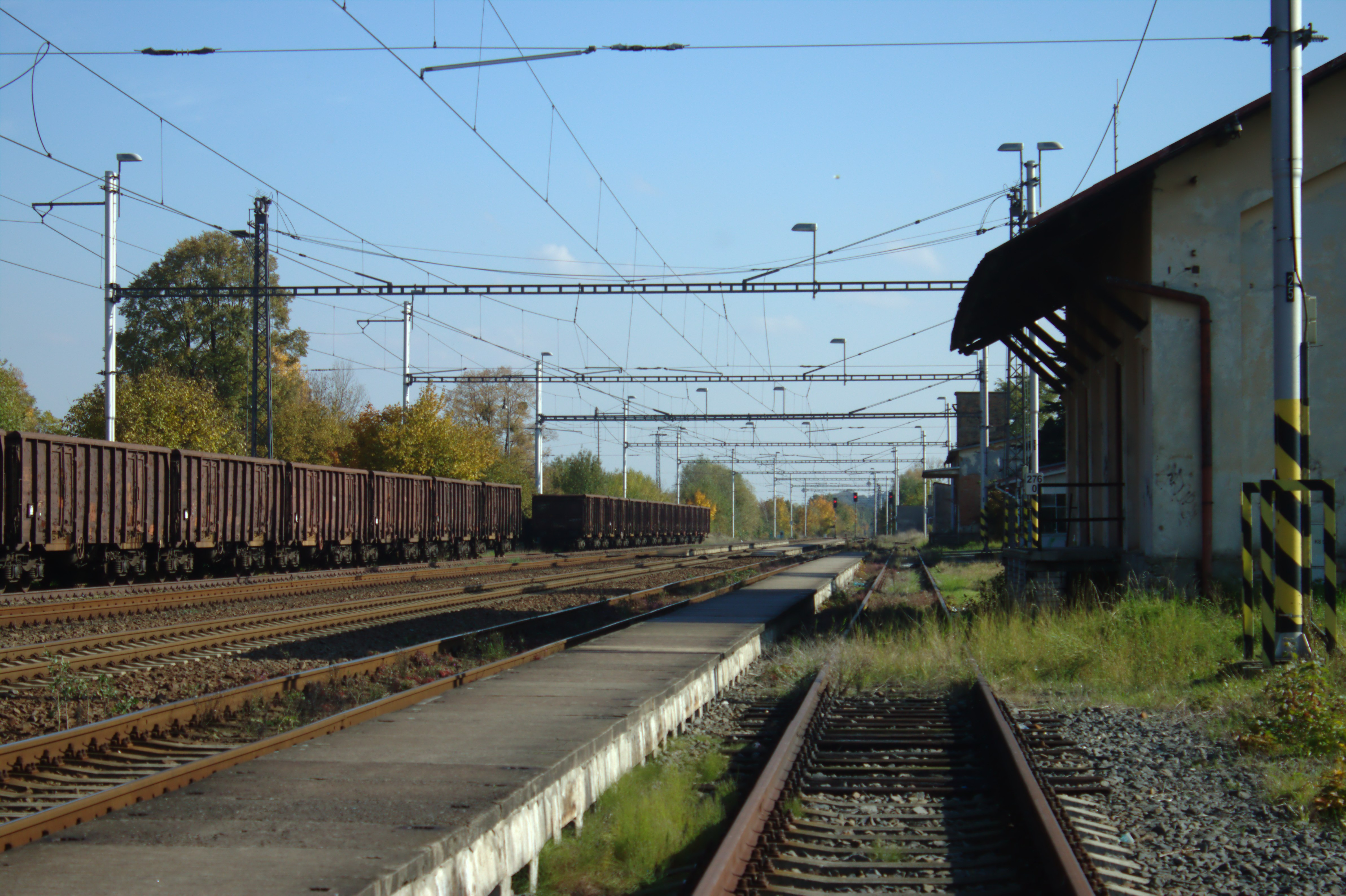 Háj ve Slezsku train station, Moravian-Silesian Region, CZ